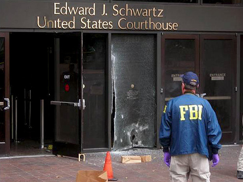 An FBI agent at the scene of the 2008 bombing of a federal courthouse in San Diego.